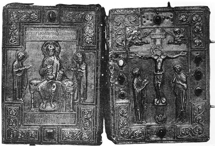 The chased book cover of the Georgian-language Gospels from the Berta monastery. Artwork by Beshken Opizari. Georgia, 12th century